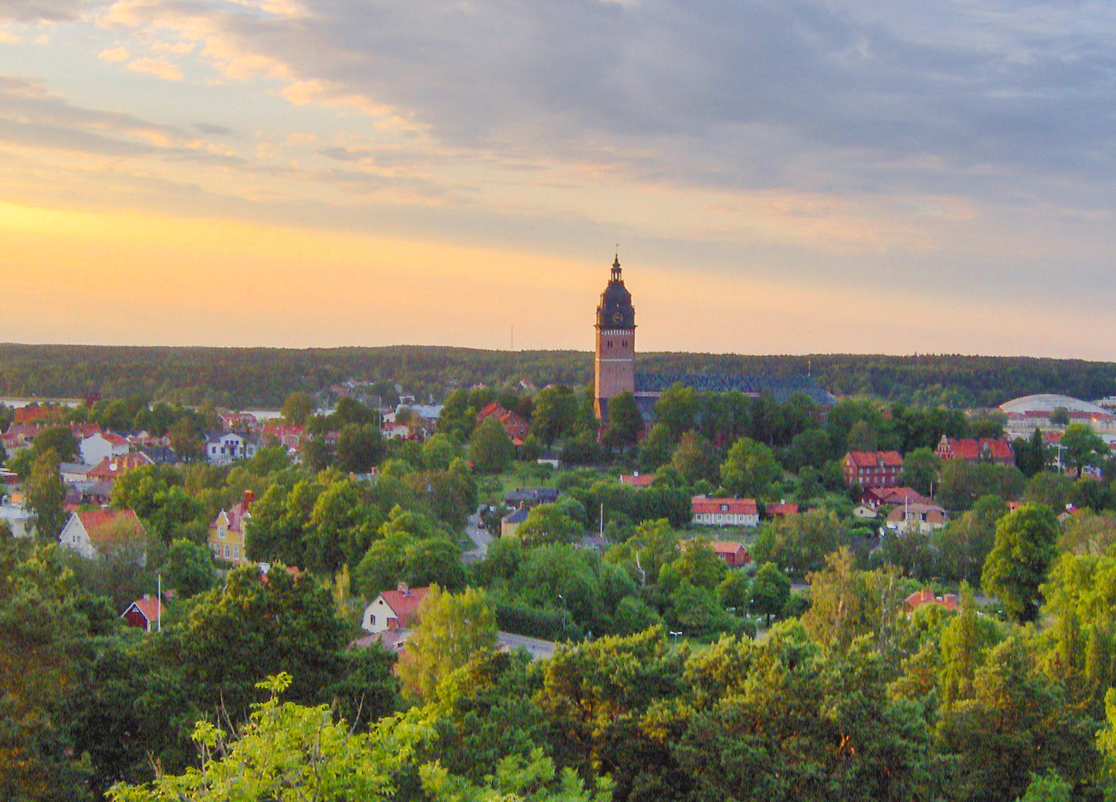 Strängnäs, taken by me Summer 2006 from Mount Långberget that is surrounding the town.